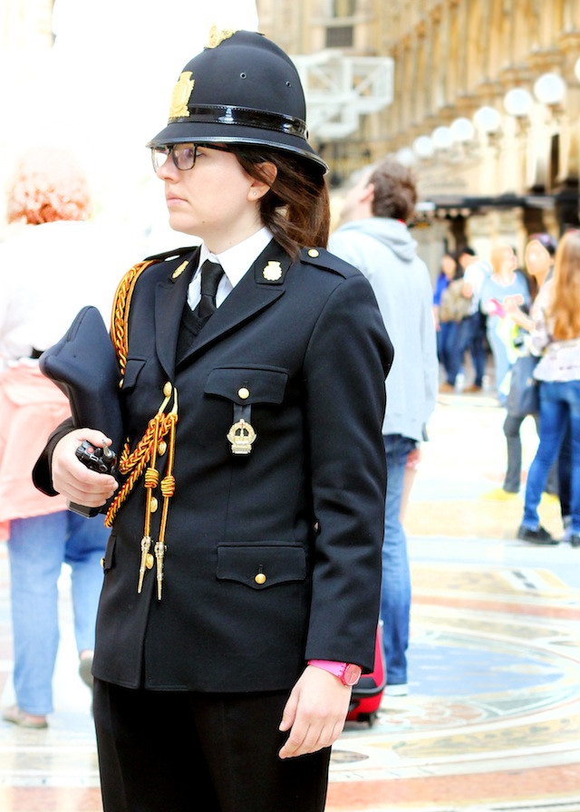 Milan people-watching hipster carabinieri